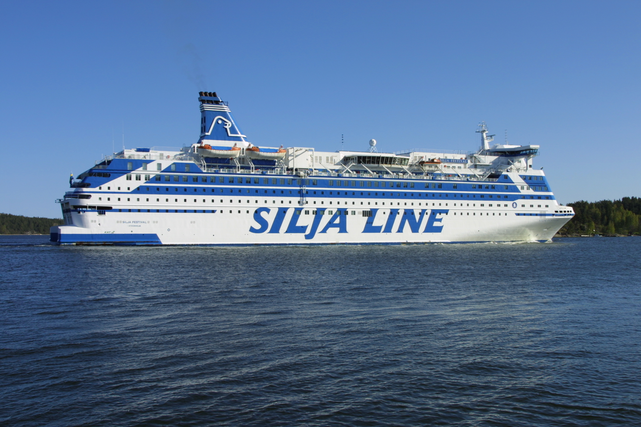 Silja Festival, Björnhuvud, Sweden 2002-05-09